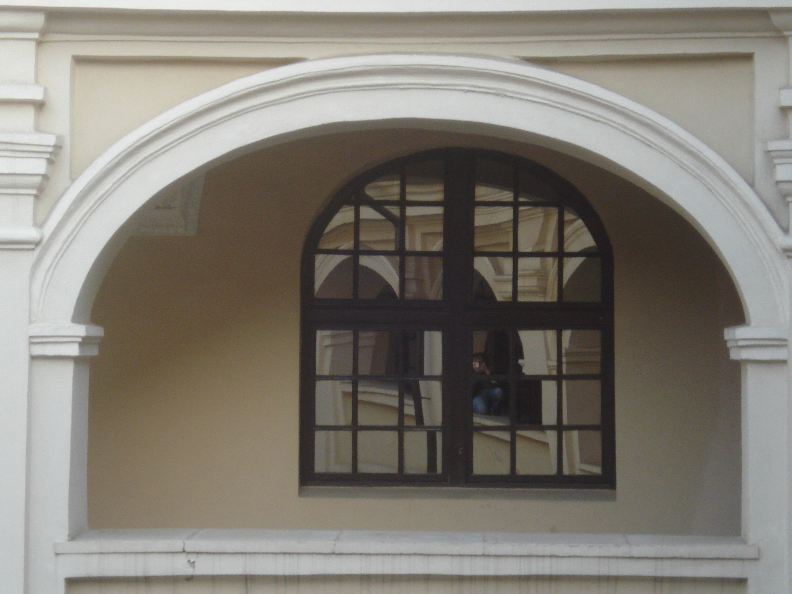 Alumnat in Vilnius (1622; Universiteto g. 4)